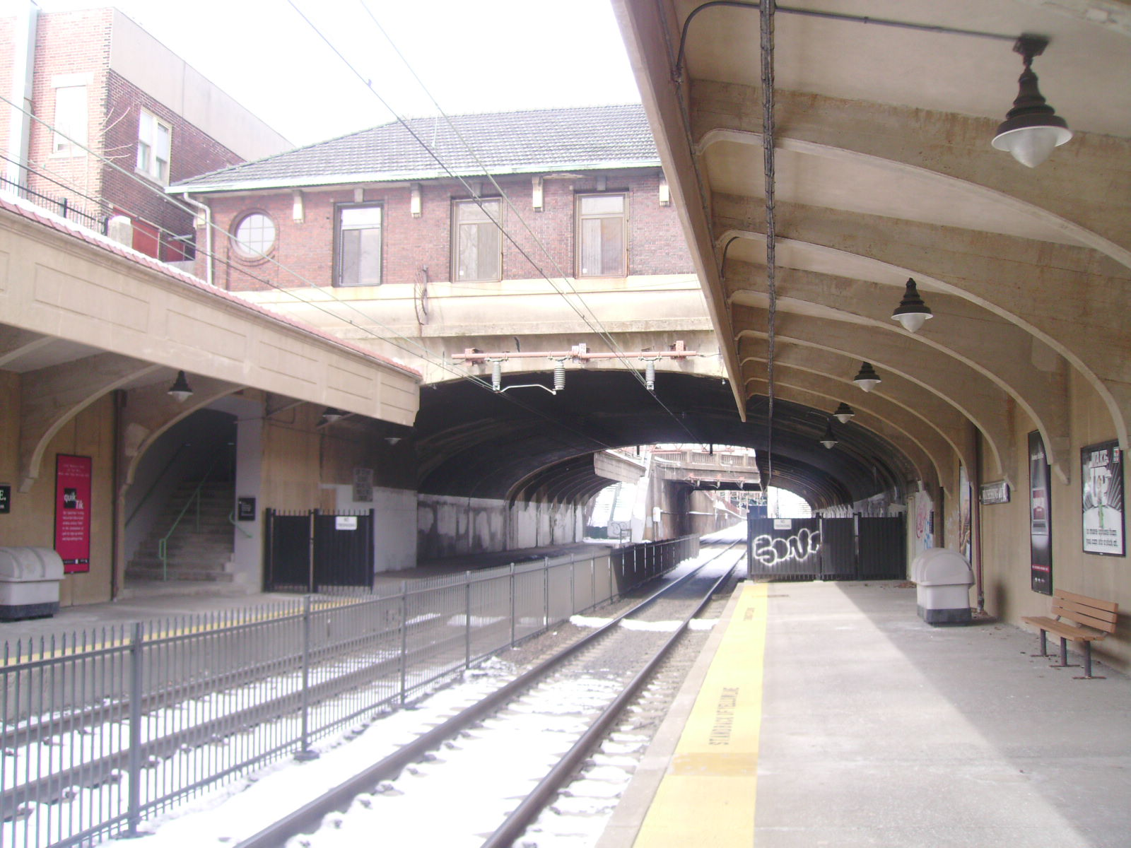 The Watsessing Avenue Station as viewed from its platform in Bloomield, New Jersey. The original station, built in 1912, is above.